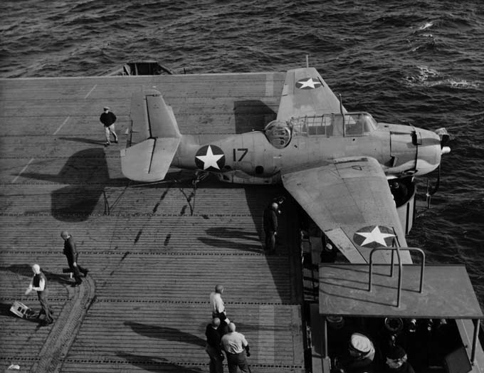 A U.S. Navy Grumman TBF-1 Avenger after making a bad landing on the escort carrier USS Card (ACV-11) on 9 December 1942.